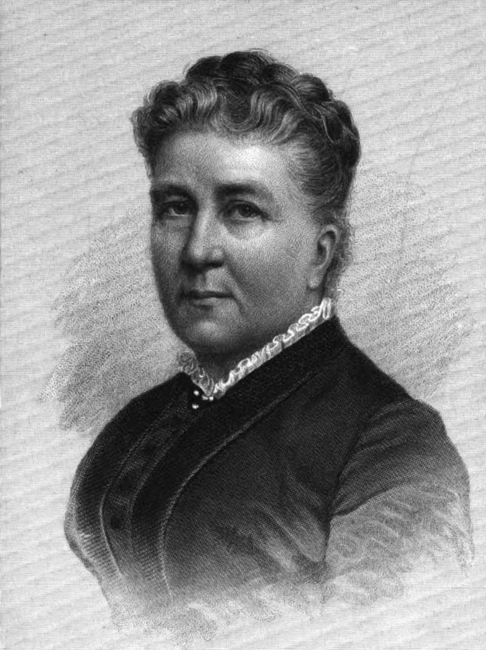 Black and white portrait lithograph of New-Yorker Staats-Zeitung publisher, editor and later office manager, Anna Ottendorfer.